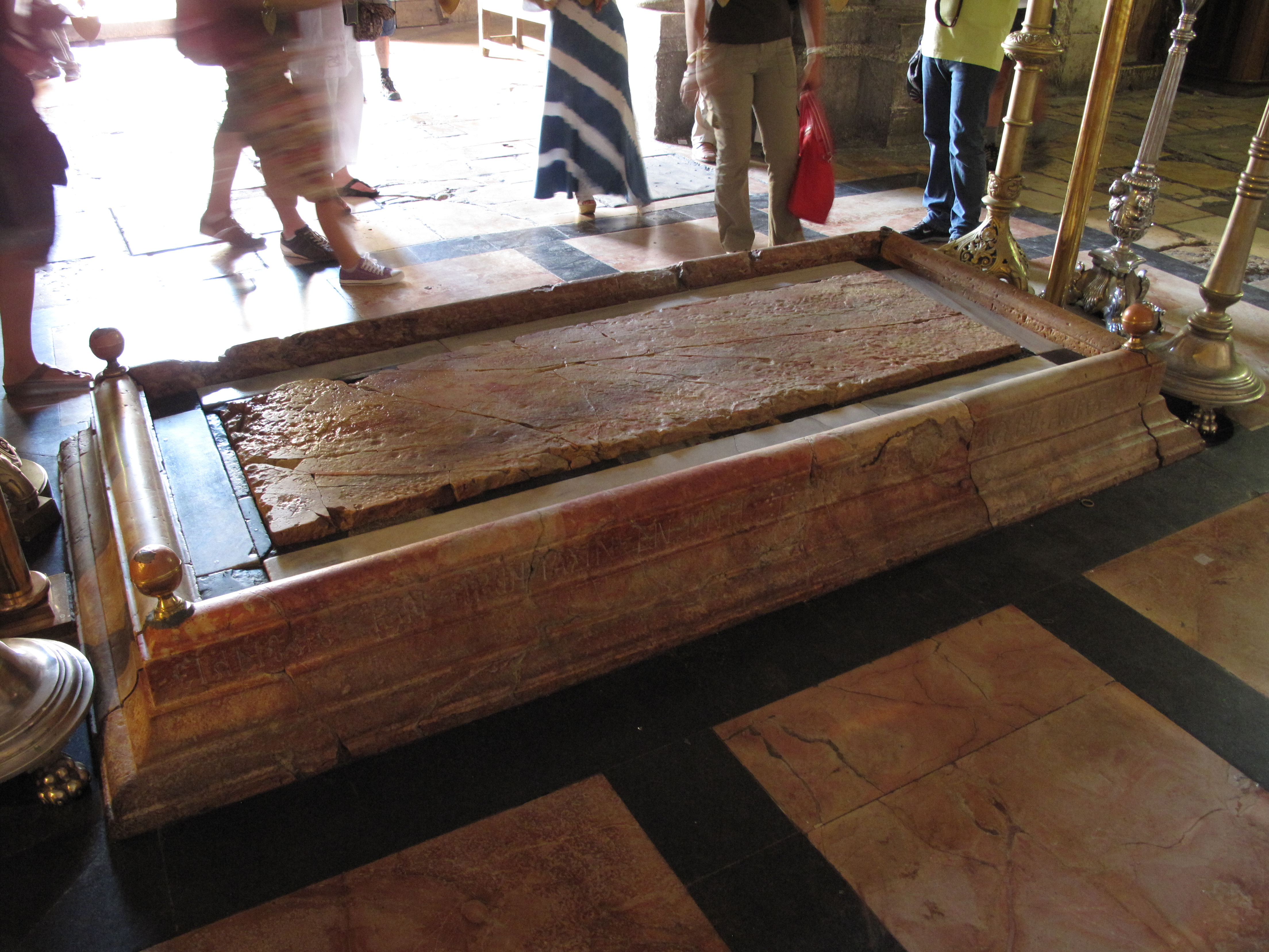 Jerusalem, Israel.